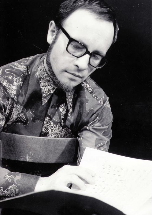 Iko Otrin